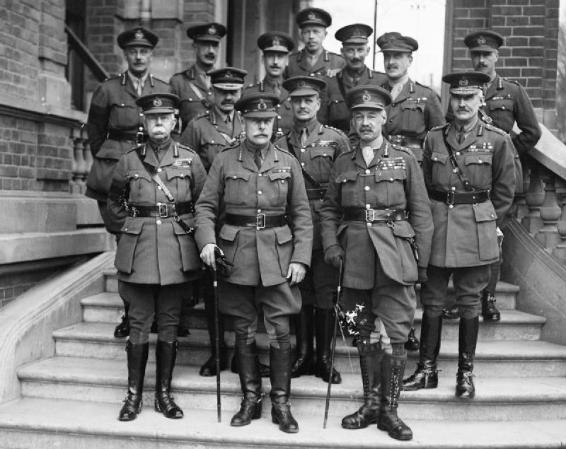 IWM caption : Field Marshal Sir Douglas Haig (centre front) with his Army Commanders at Cambrai, left to right beside and behind him, General Sir Herbert Plumer (2nd Army), General Sir Julian Byng (3rd Army), General William Birdwood (5th Army), Henry Rawlinson (4th Army) and General Sir Henry Horne (1st Army), with other senior officers.